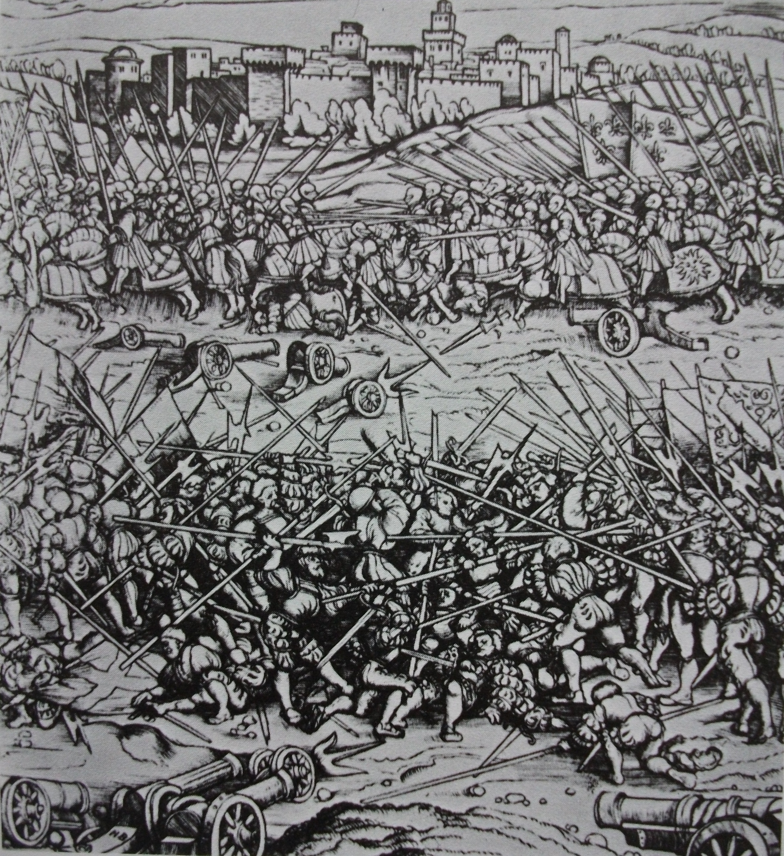 Battle of Ravenna (1512), Austrian National Library Vienna.